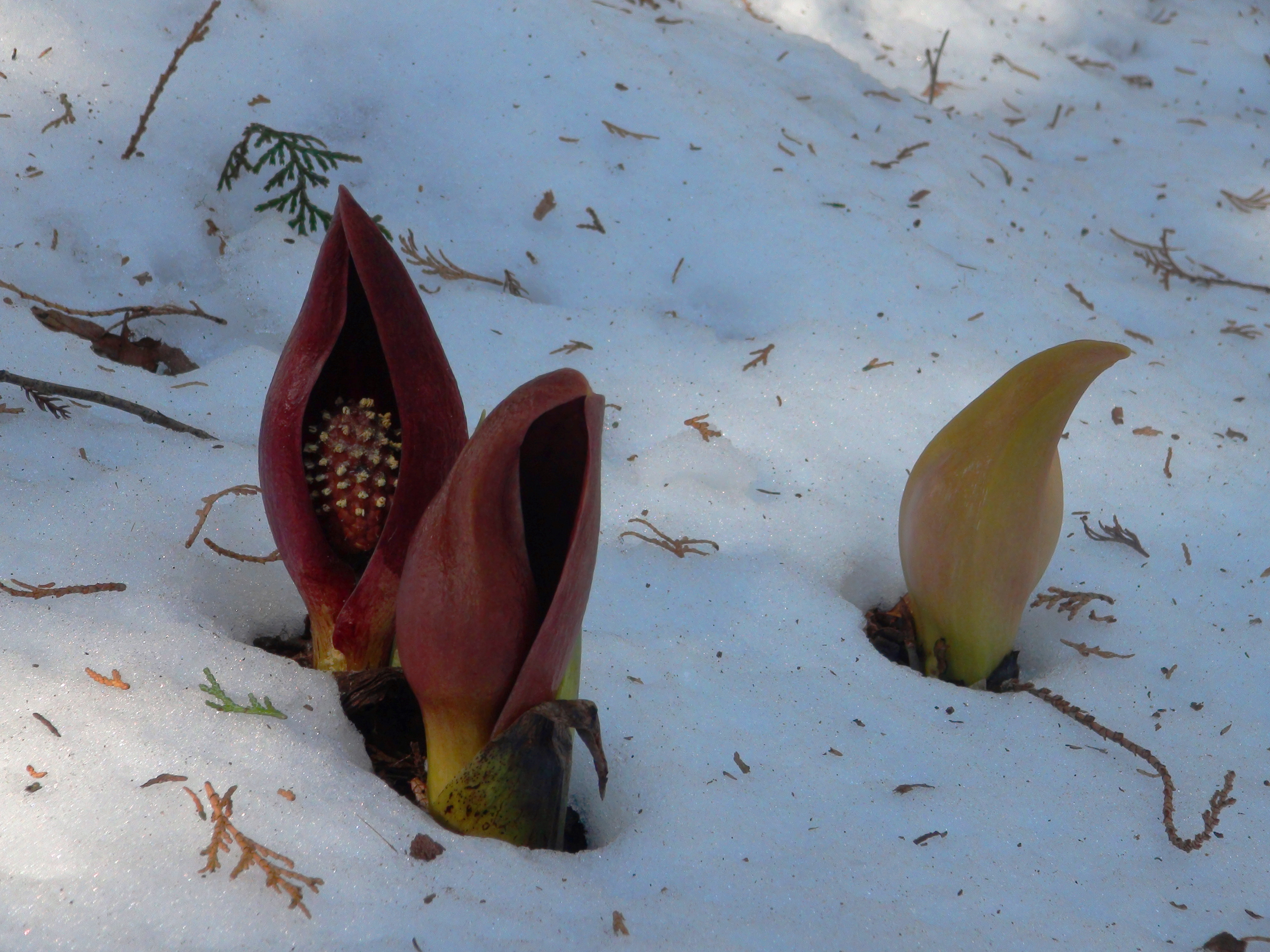 Eastern Skunk Cabbage Takemori Koshu-City